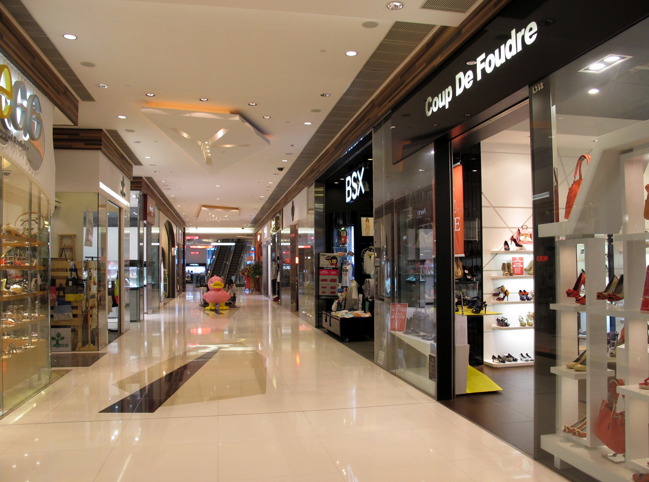 The ONE Level 3 Shops